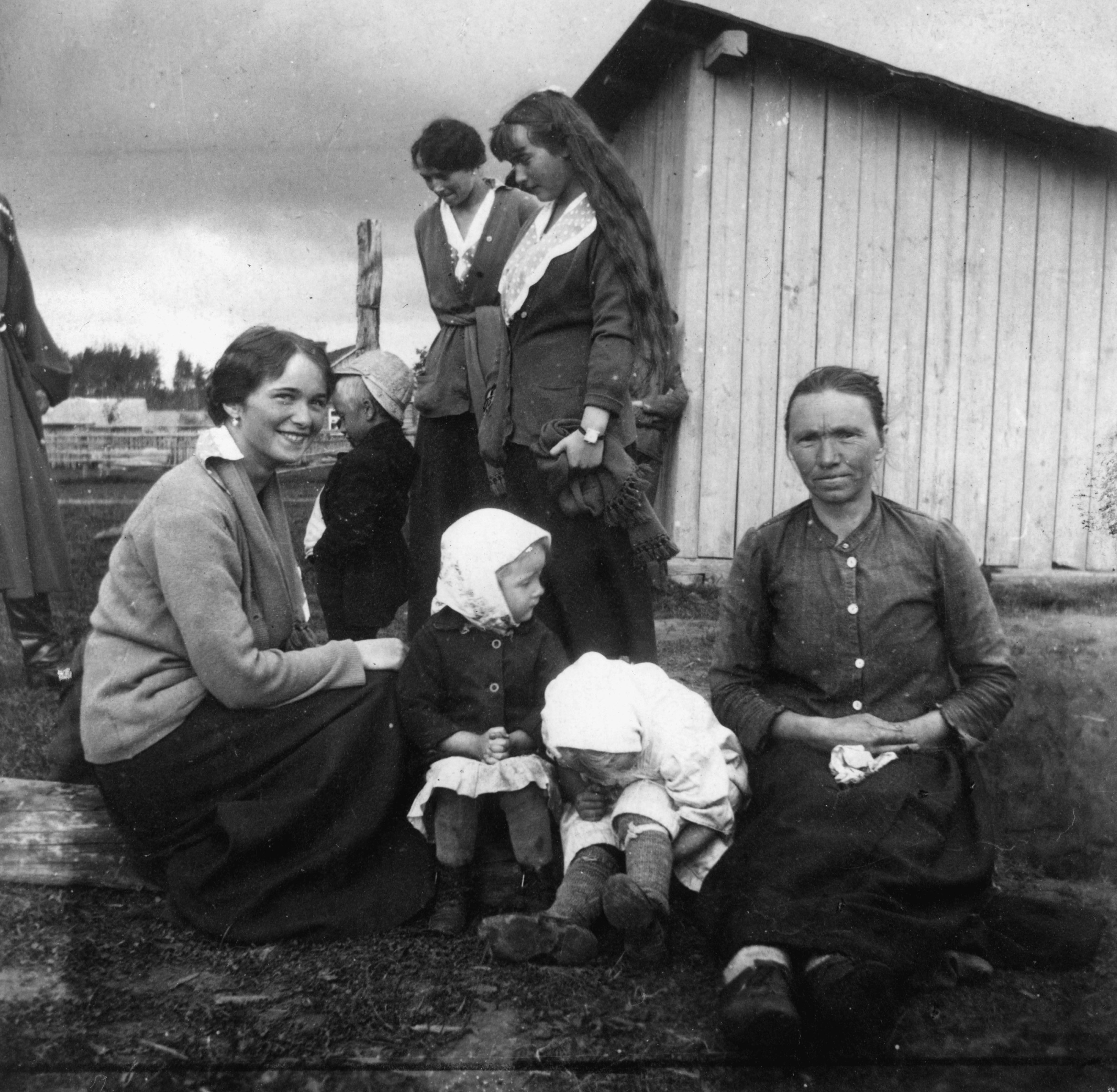 Grand Duchesses Olga, Tatiana and Anastasia Nikolaevna of Russia with peasant people at a train station near Mogilev. The kids are "Bolyus", "Stephania" and an unidentifed female child sitting next to the peasant woman.